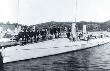 Norwegian torpedoboat of the Lyn class, officialy named 2 class torpedoboat. This specific boat is the "Blink" ("Flash"). Government photo pre 1920.